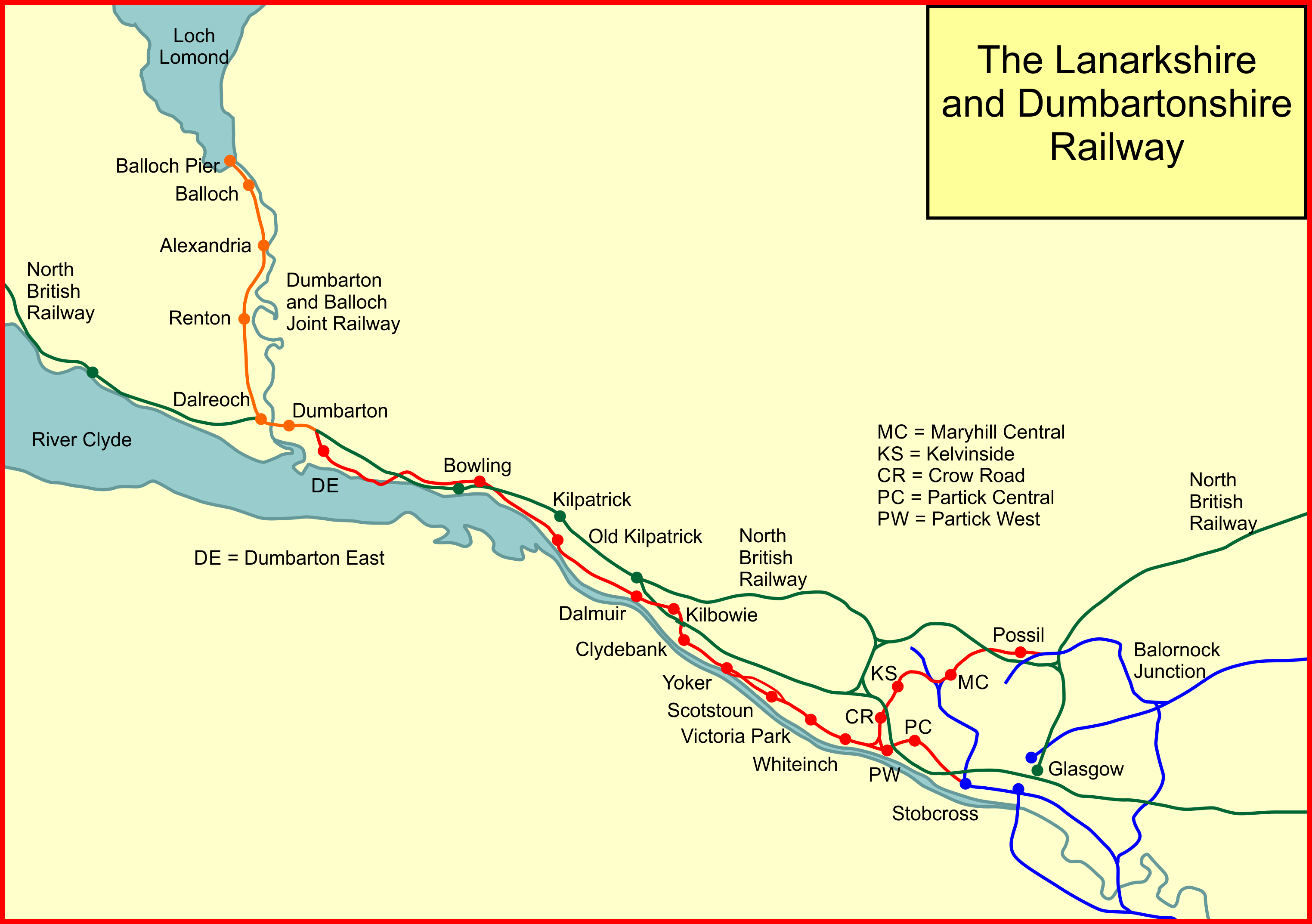 System map of the Lanarkshire and Dumbartonshire Railway, Scotland